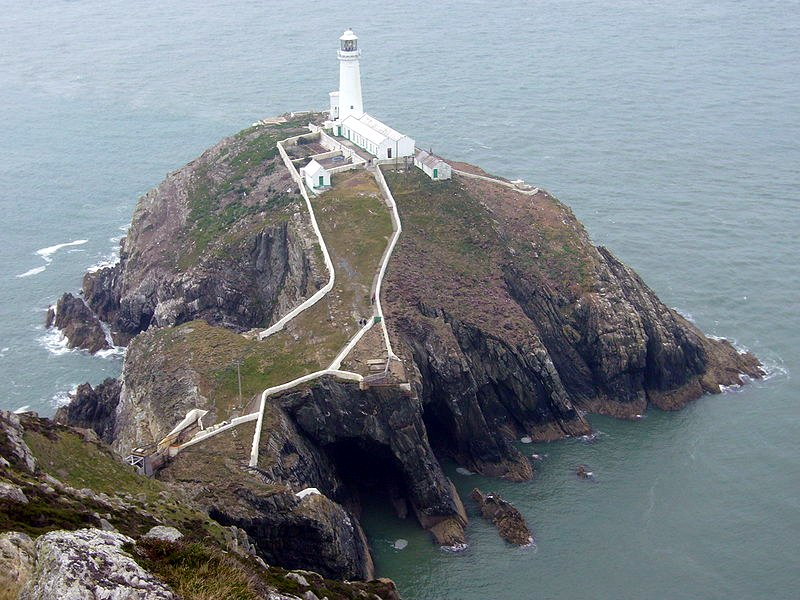 South Stack lighthouse on Anglesey in Wales. Required attribution is: Photo by Tom Oates.